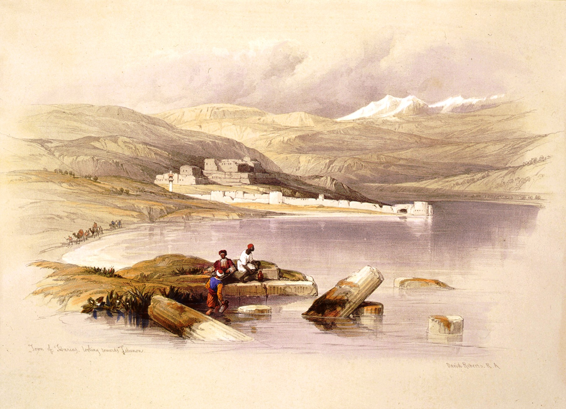 half-folio depicts the town of Tiberias viewed from the Roman ruins at the hot springs south of the city.